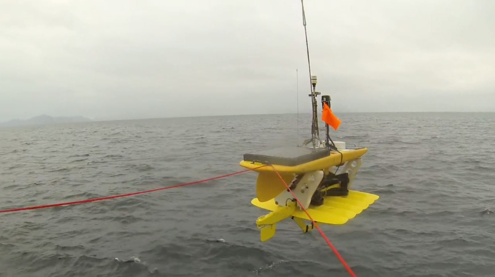 A wave glider being deployed in Alaskan water as part of the PMEL (Pacific Marine Environmental Laboratory) project of the US NOAA (National Oceanic and Atmospheric Administration)